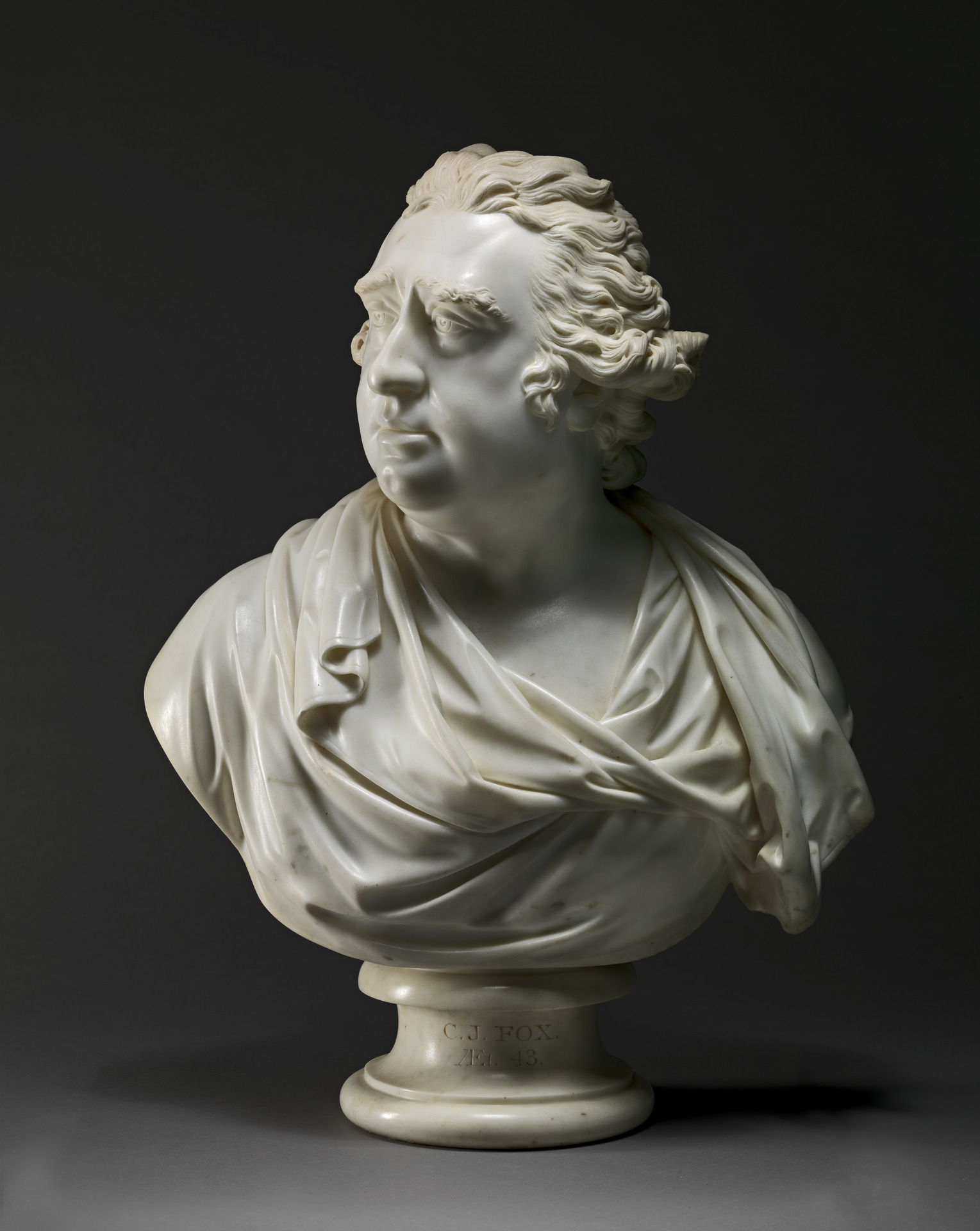 Bust of "Charles James Fox," marble, by the English sculptor Joseph Nollekens (1737-1823). Dated 1792. 27 1/4 inches x 18 1/2 inches x 10 inches (69.2 cm x 47 cm x 25.4 cm). Courtesy of the Paul Mellon Collection, Yale Center for British Art, Yale University, New Haven, Connecticut.